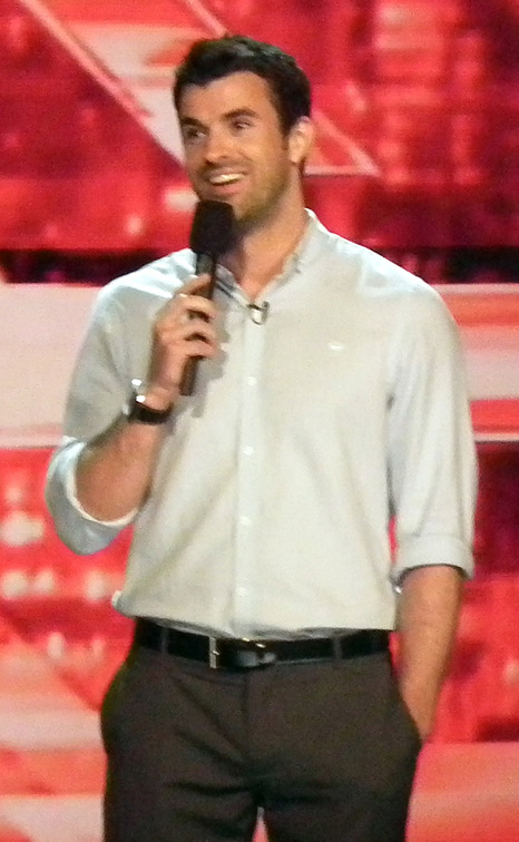 Steve Jones photo courtesy Alison Martin of .